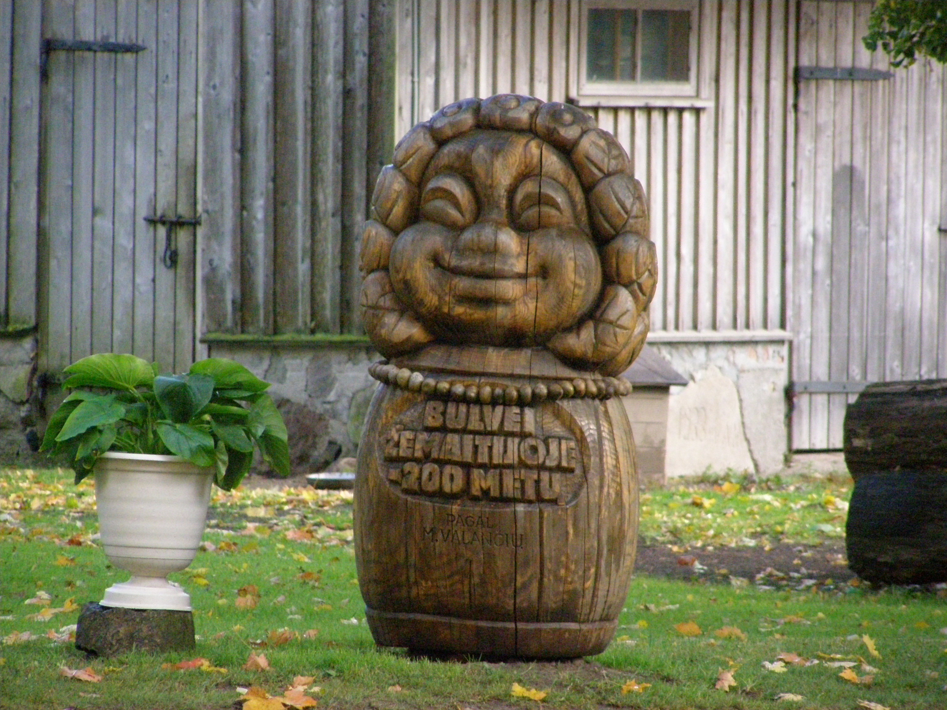 Nasrėnai, Kretinga district, LithuaniaLietuvių: Skulptūra-paminklas bulvei, Nasrėnai, Kretingos rajonas, Lietuva